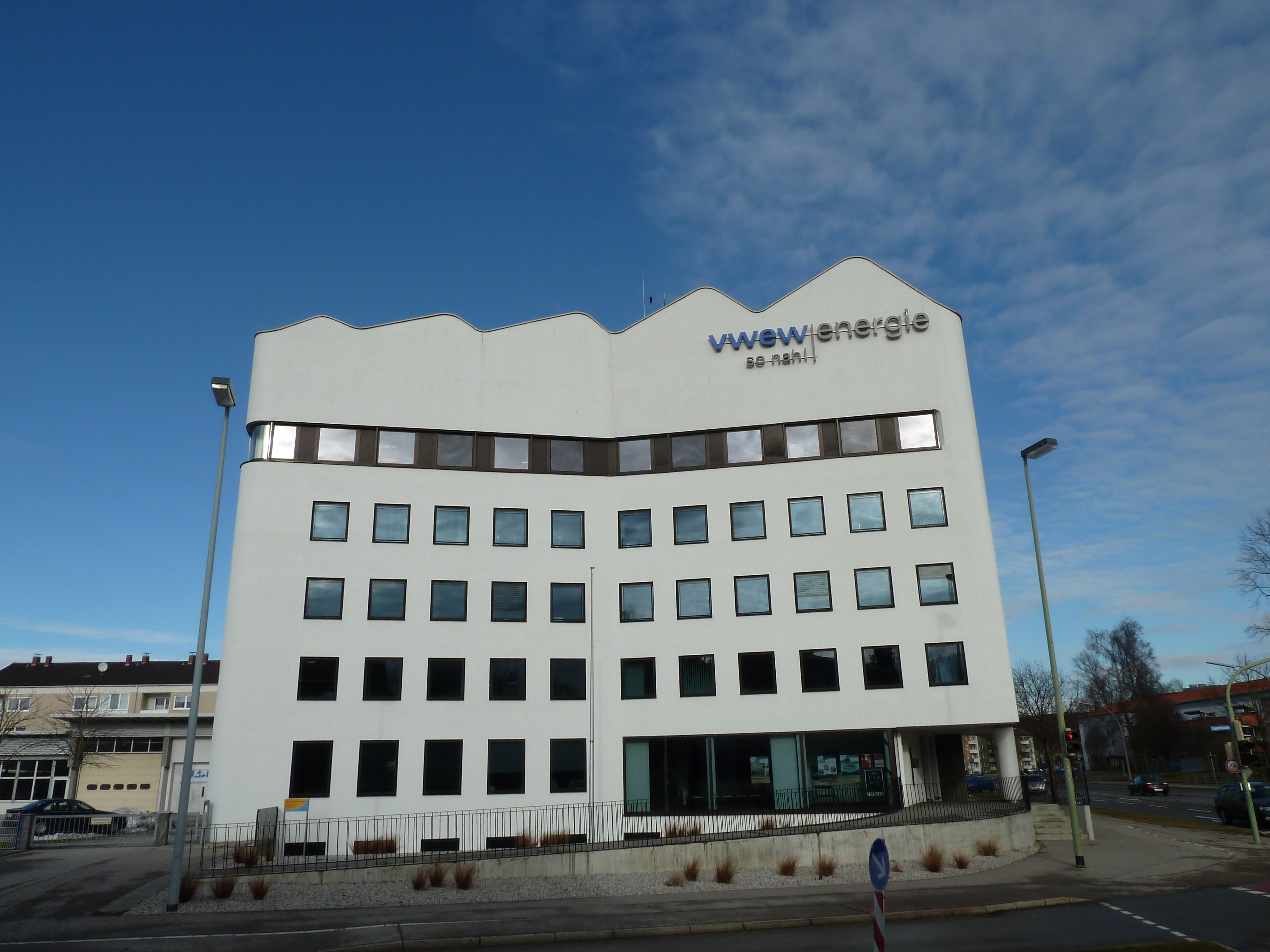 VWEW Verwaltung Kaufbeuren